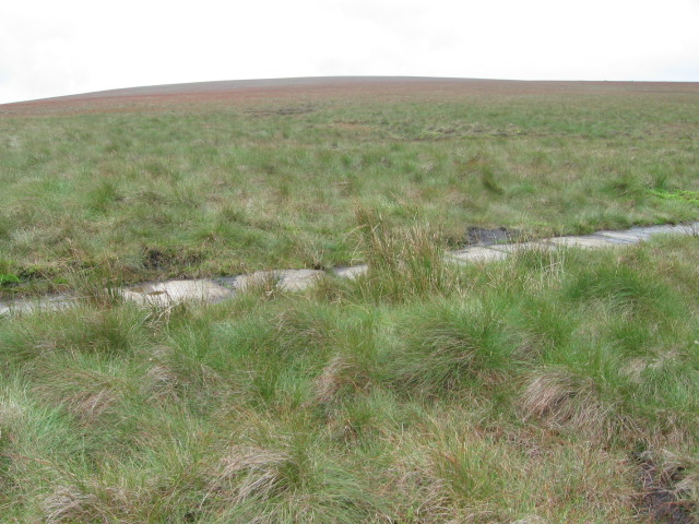 Featherbed Moss towards Featherbed Top